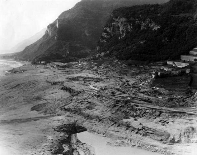 View of Longarone after the wave from the Vajont Dam had passed through